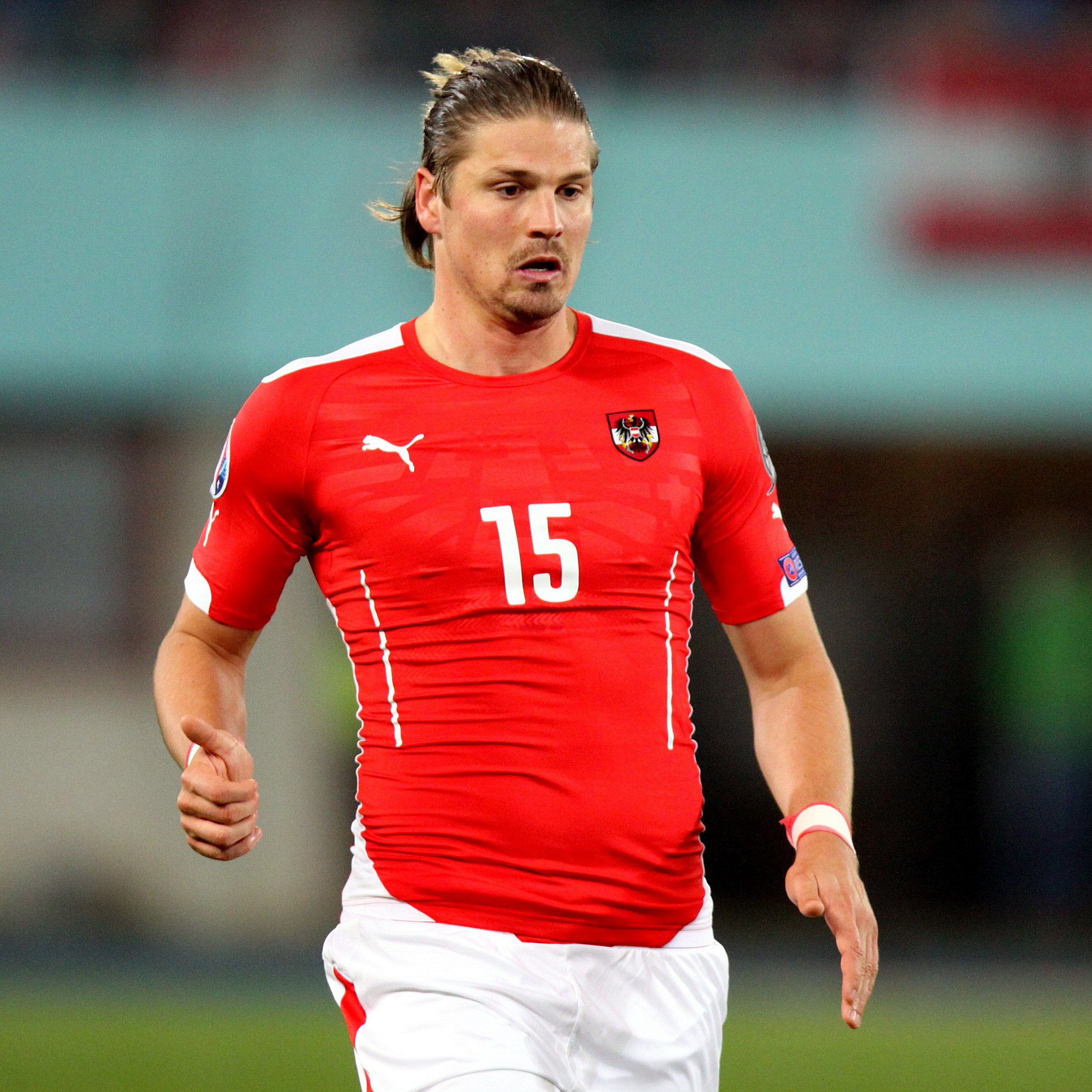 UEFA Euro 2016 qualifying, Group G – Austria (red shirts) vs. Liechtenstein (blue shirts) 3–0 (1–0) on 2015-10-12 in Ernst-Happel-Stadion, Vienna – The photo shows Sebastian Prödl.